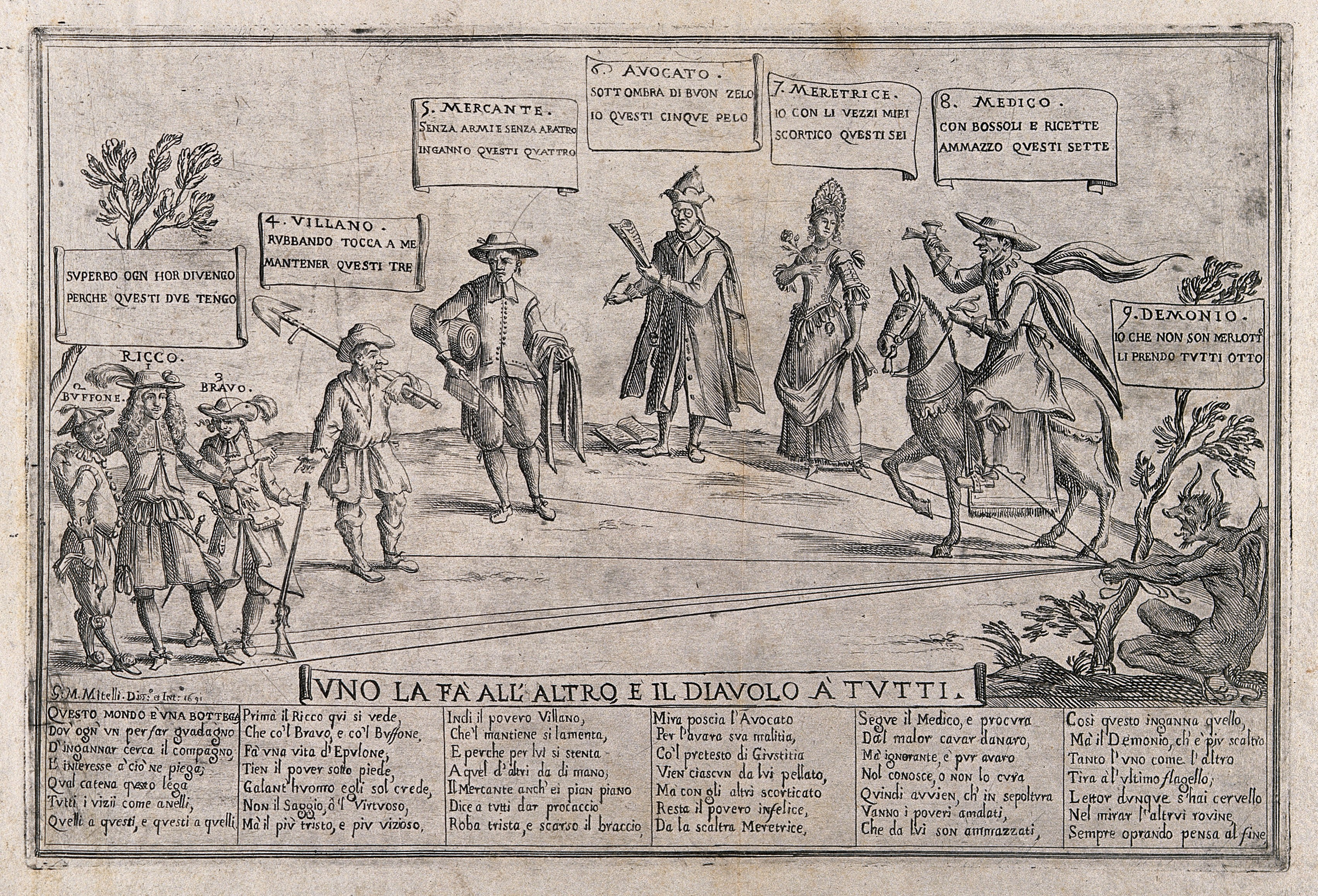 The Italian social fabric symbolised by a chain of social types, with all relations of dependance ultimately relating back to the devil. Etching by G.M. Mitelli after himself, 1691. Iconographic Collections Keywords: Giuseppe Maria Mitelli